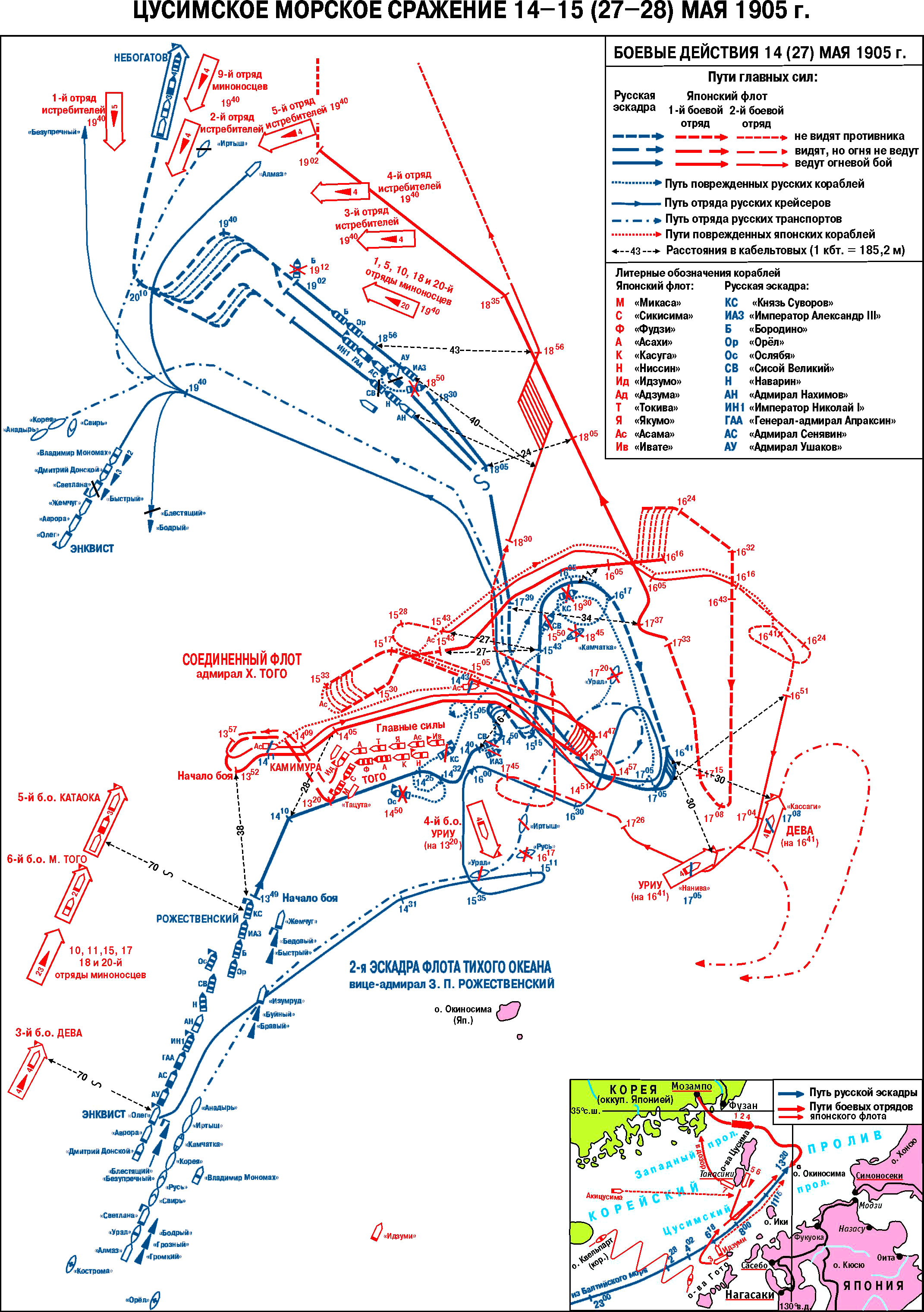 Battle of Tsushima. Scheme of Daylight action, May, 27, 1905